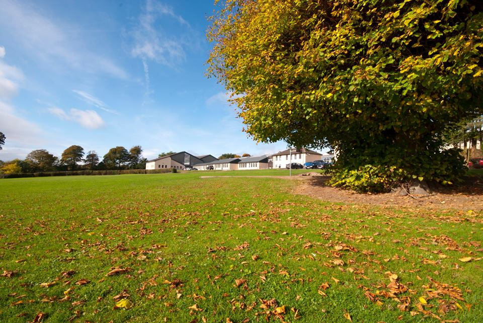 Coachford College grounds in a rural environment